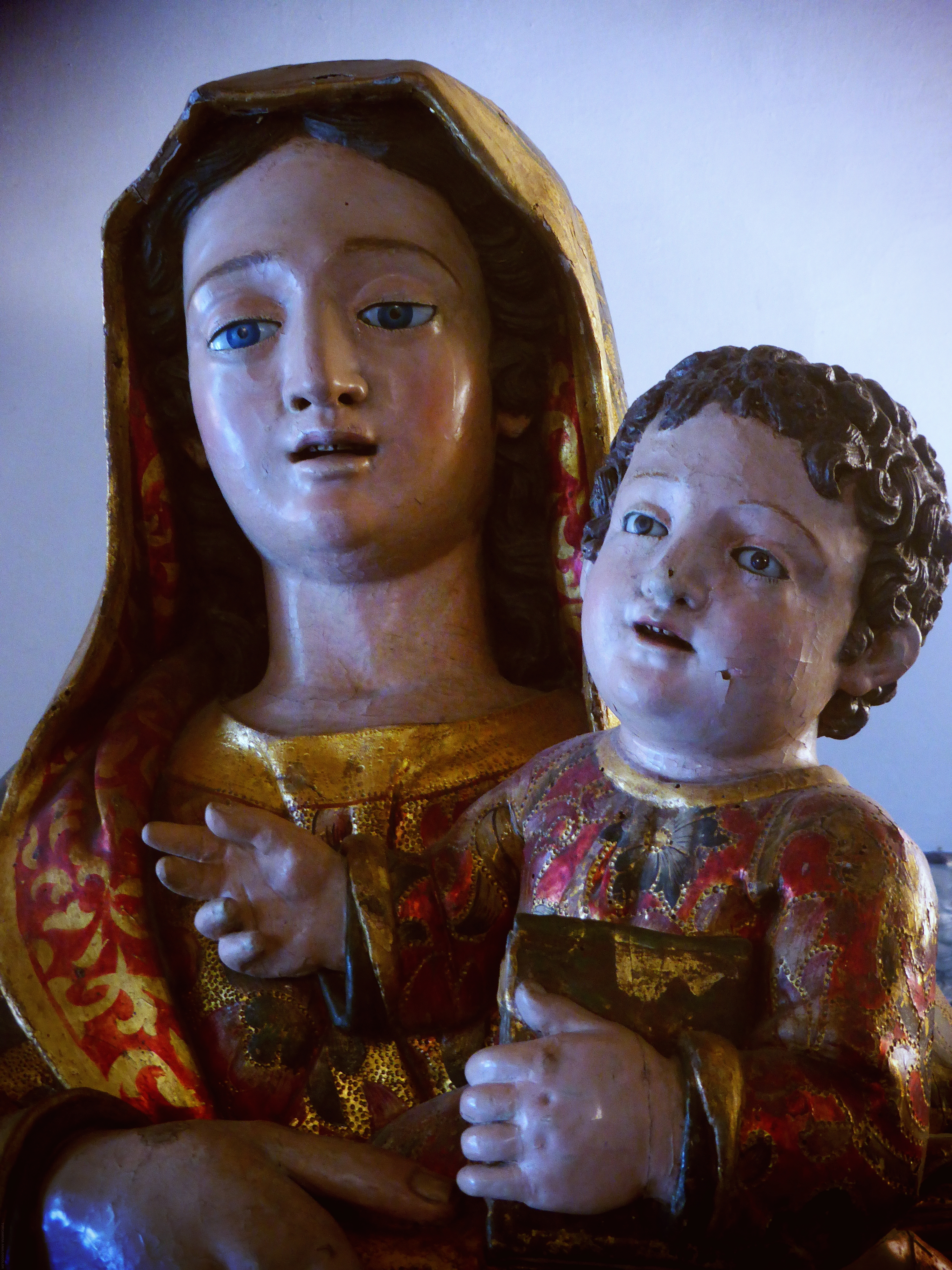 Catedral Sé